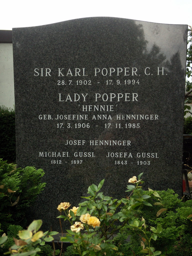 Grave of Sir Karl Raimund Popper in Vienna 13 Lainz buried in the cemetery next to the ORF Center Küniglberg. Inscription: "Sir Karl Popper, CH, 28.7.1902-17.9.1994, LADY POPPER, Hennie 'GEB. ANNA JOSEFINE HENNINGER 17.3.1906-17.11.1985, JOSEF HENNIG, MICHAEL GUSSL 1812-1897, JOSEFA GUSSL 1843-1903 "